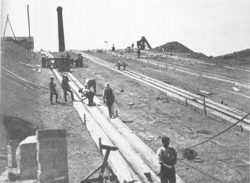 Photo taken in 1900. UK law has life+70 years for photos. Photo is from the collection of British railways western region.